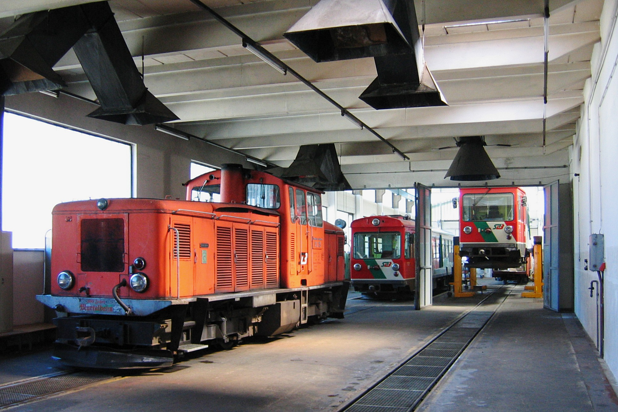 Inside the Murtalbahn's engine shed and workshop in Murau with diesel locomotive VL13 and two VT railcars.